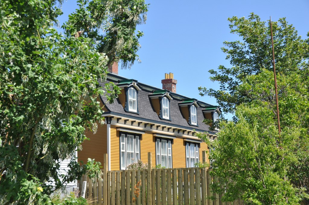 Cable Staff House #1 and #2 (both sides of a duplex), Heart's Content, Newfoundland.